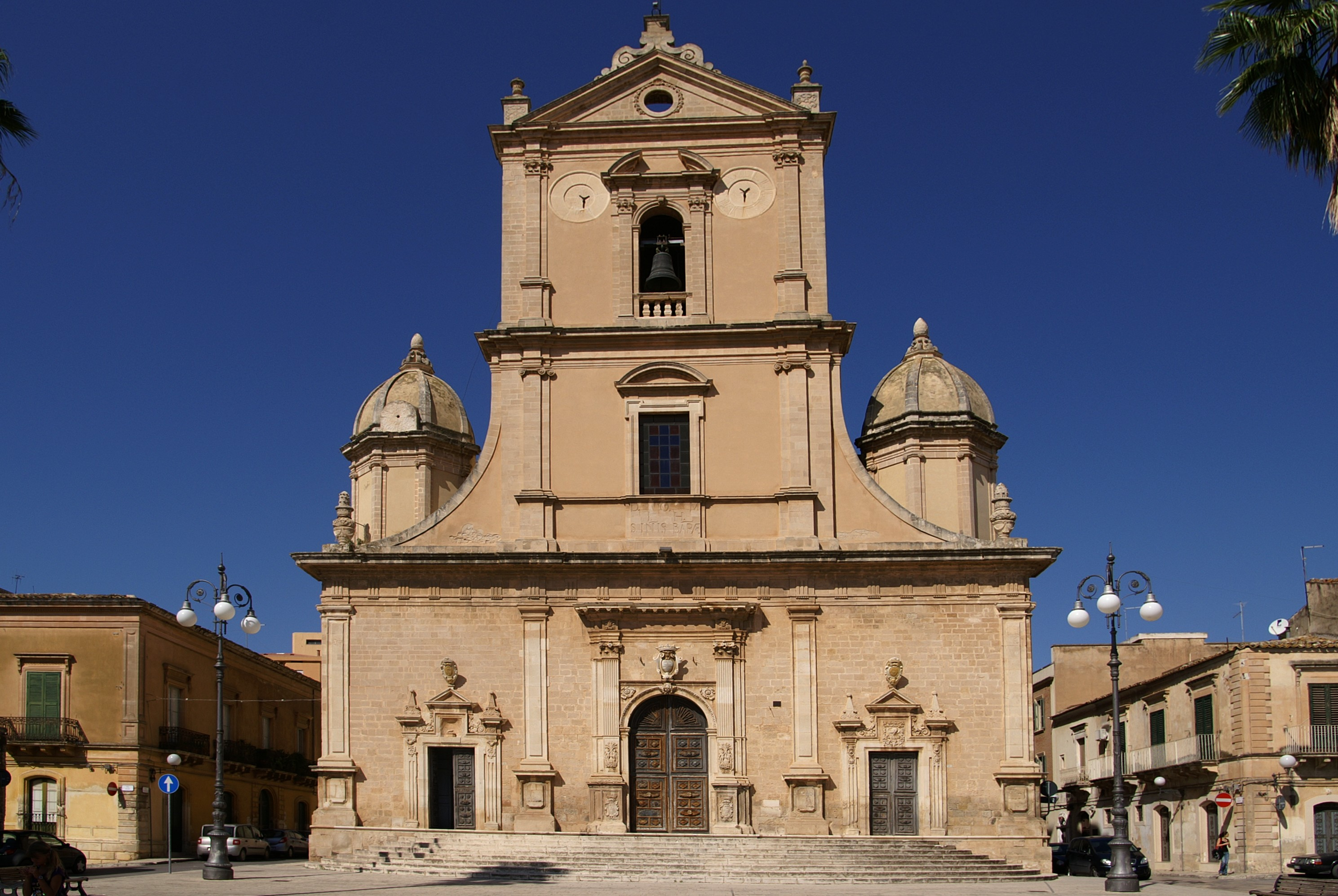 Vittoria: Chiesa Madre S.Giovanni Battista